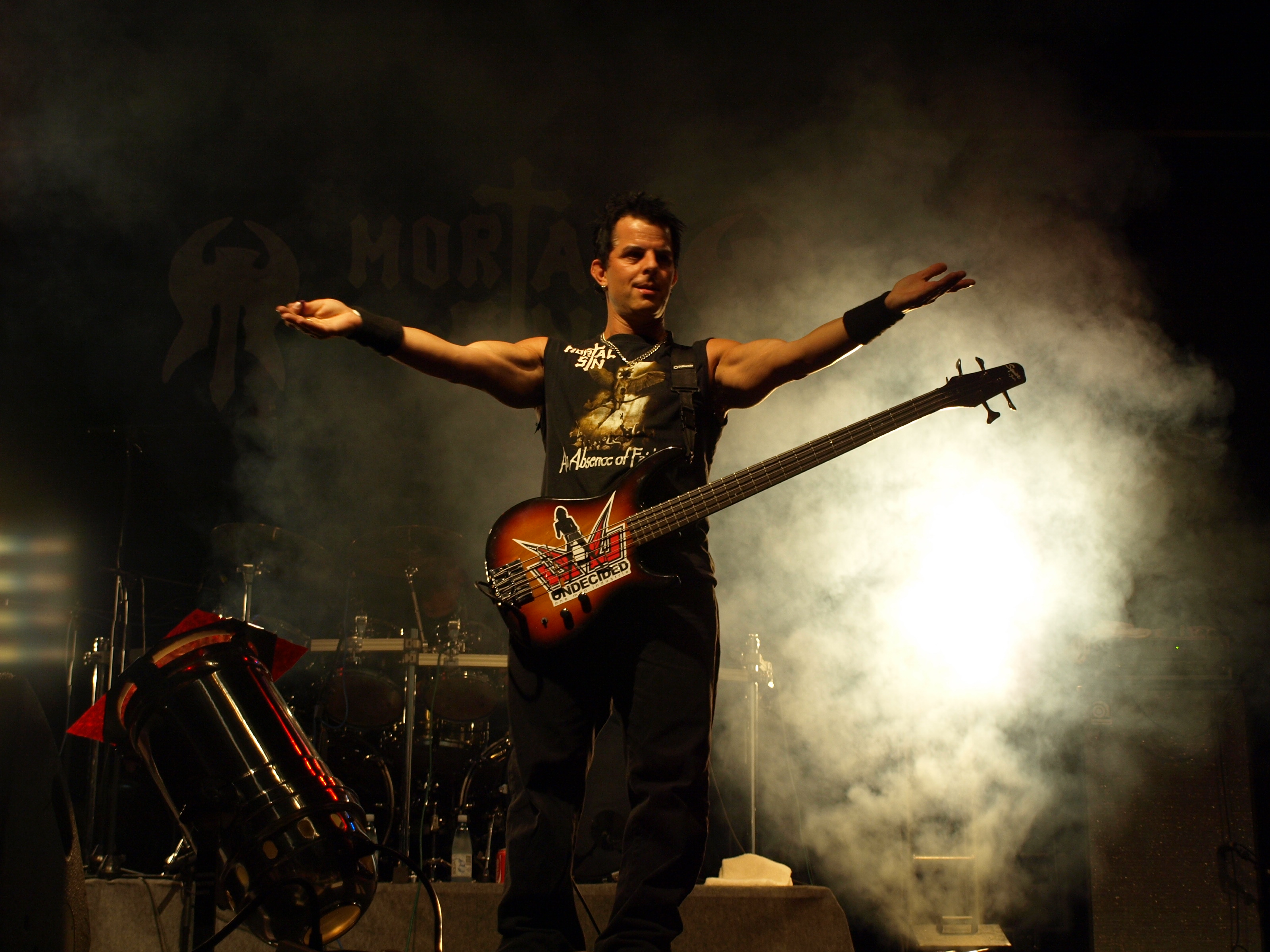 Australian Thrash metal band Mortal Sin live at Jalometalli 2008 in Oulu.